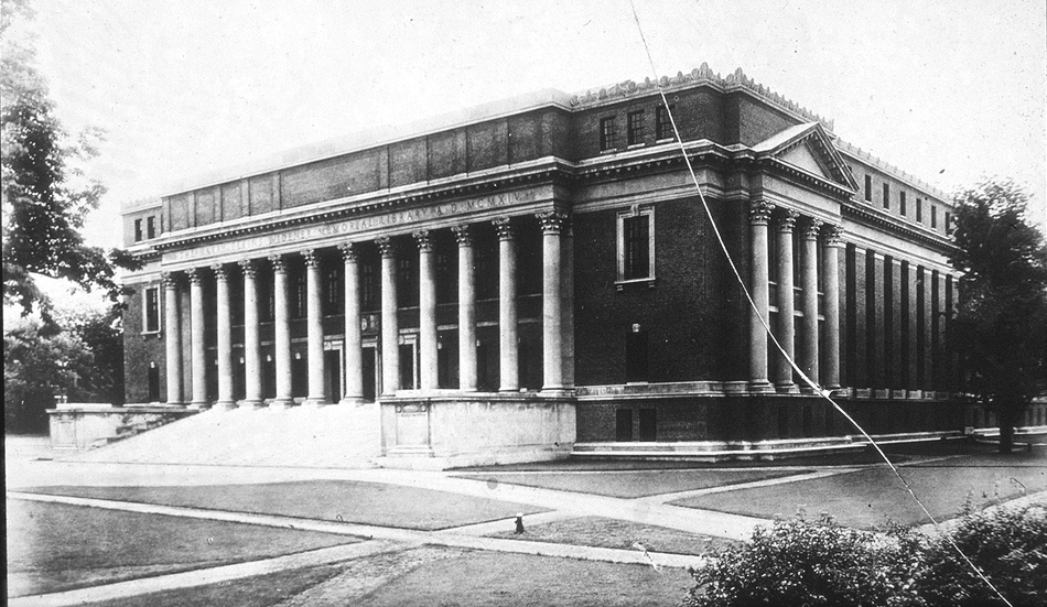 Harry Elkins Widener Memorial Library, Harvard University, Cambridge, MA (1915). Designed by African American architect Julian Abele, of the Horace Trumbauer office. Photograph from the Library of Congress web site